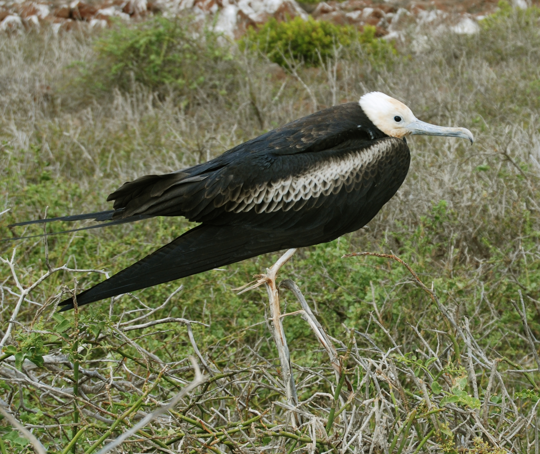 Juvenile Magnificent Frigate Bird (Fregata magnificens) in North Seymour Island, Galapagos.